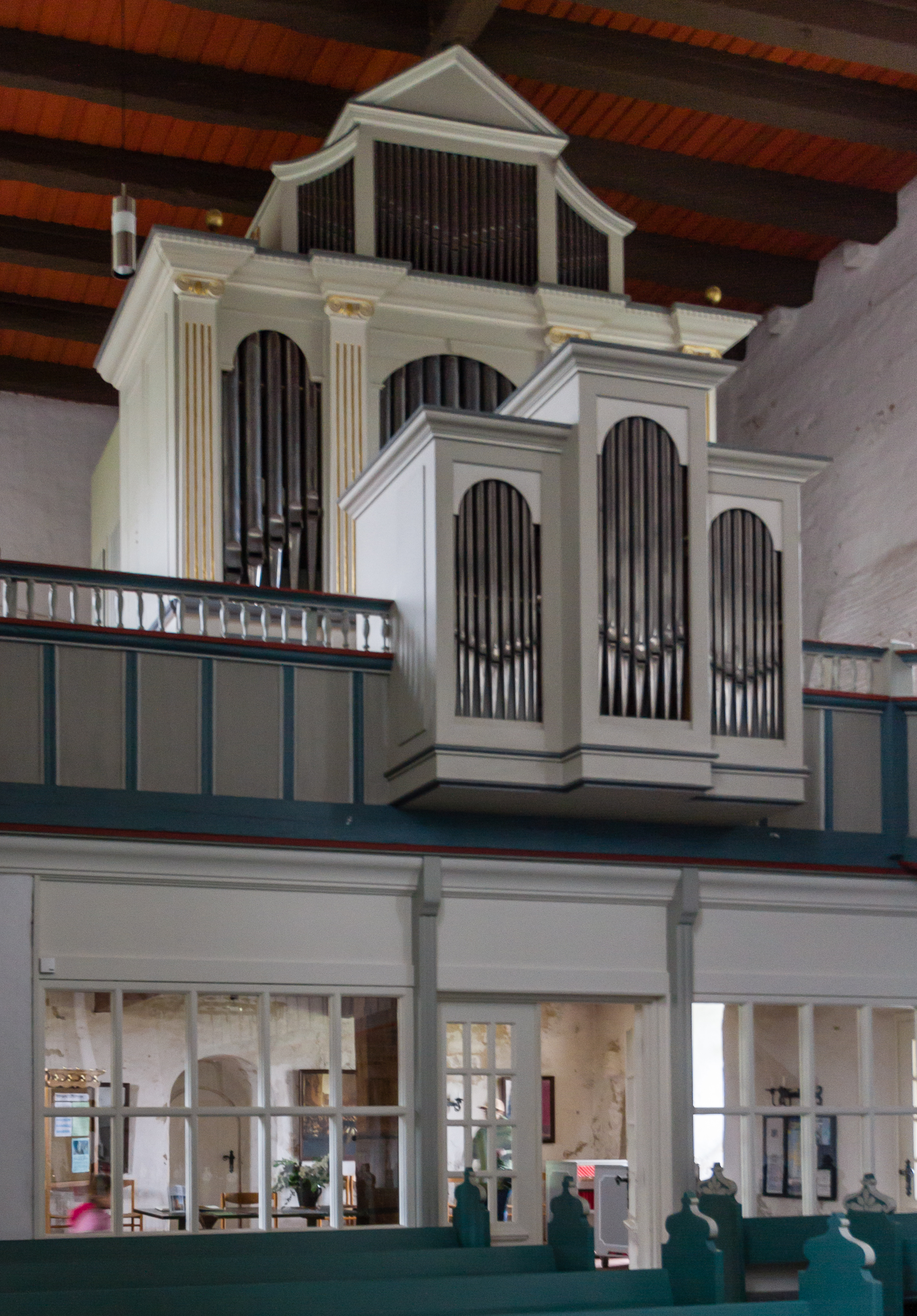 This is a photograph of an architectural monument. Designation: Church St. Johannis mit equipment Construction time: 12th century Description: The Protestant church was built in the 12th century. In the 13th century the church was extended. Inside there is a carved altar from the time around 1480. The granite baptismal font dates from the period around 1200. The pulpit was built in 1618. Category: Structural component, Material entity: Church St. Johannis Place: Municipality Nieblum, Collective municipality Föhr-Amrum, District Nordfriesland, Schleswig-Holstein, Germany Location: Karkstieg